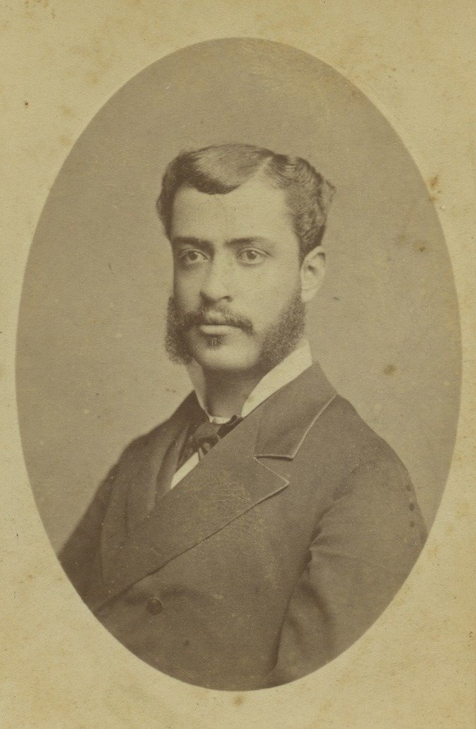 Alberto Muñoz Vernaza